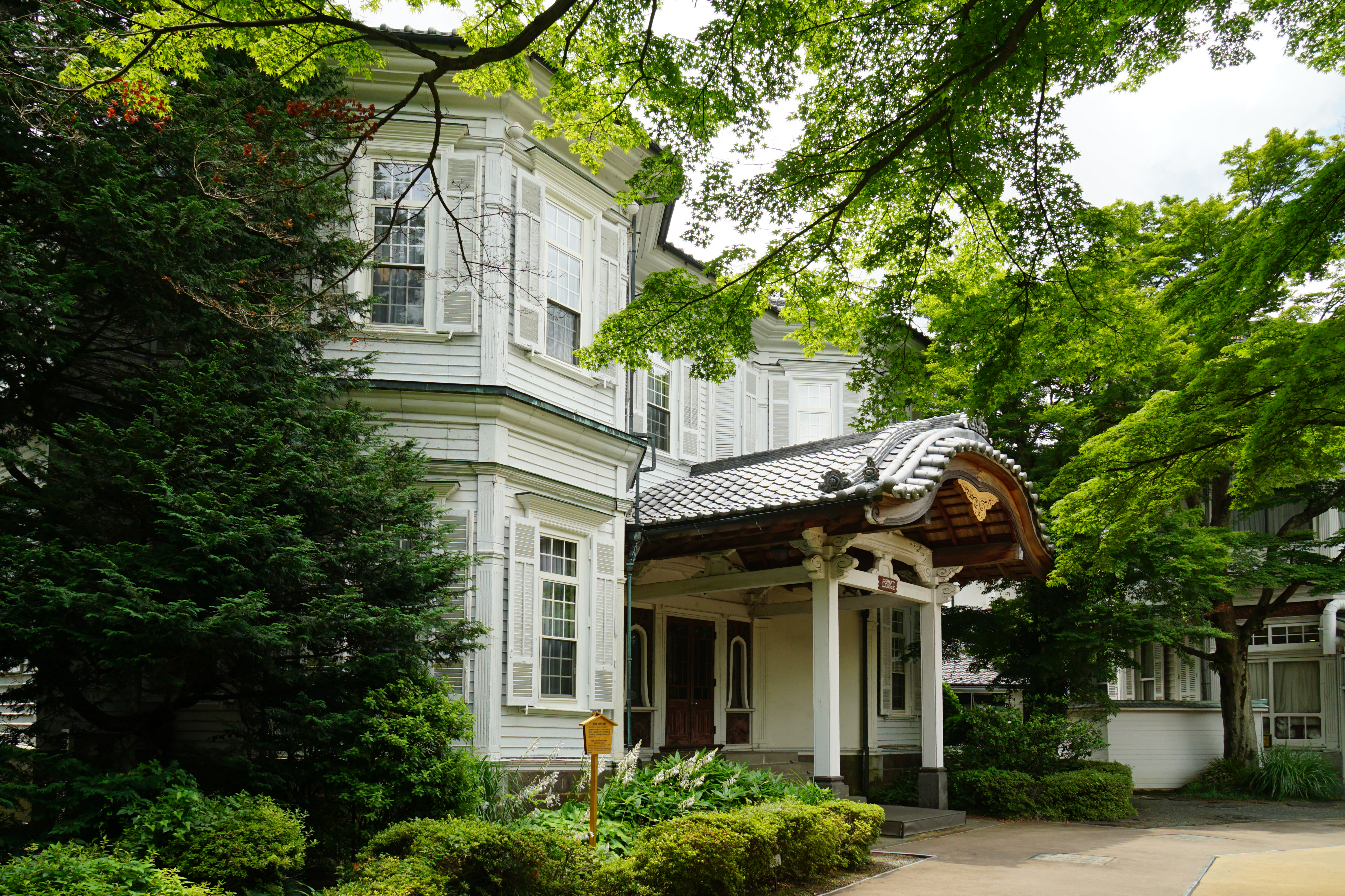 Fujiya Hotel in Hankone, Kanagawa prefecture, Japan